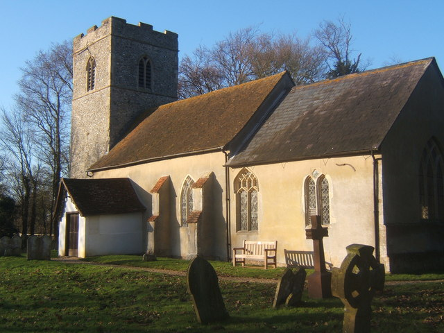 St Mary's Church, Naughton In an attractive churchyard surrounded by trees set back just a little from the village green.